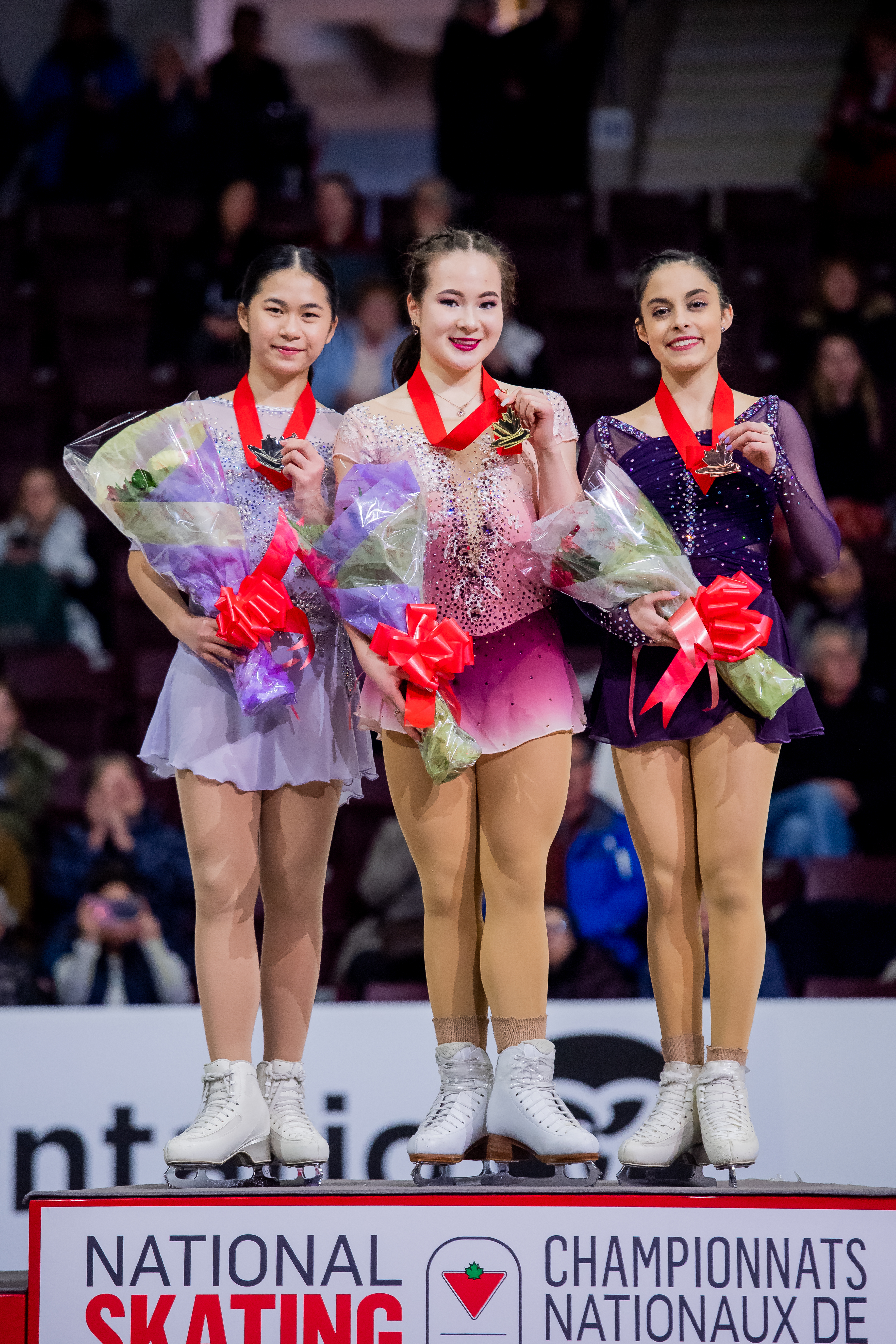 Canadian National Figure Skating Championships 2020-Medalists Senior Ladies: Alison Schumacher- 2nd 168.94 points; Madeline Schizas 3rd- 168.07 points; Emily Bausback -1st